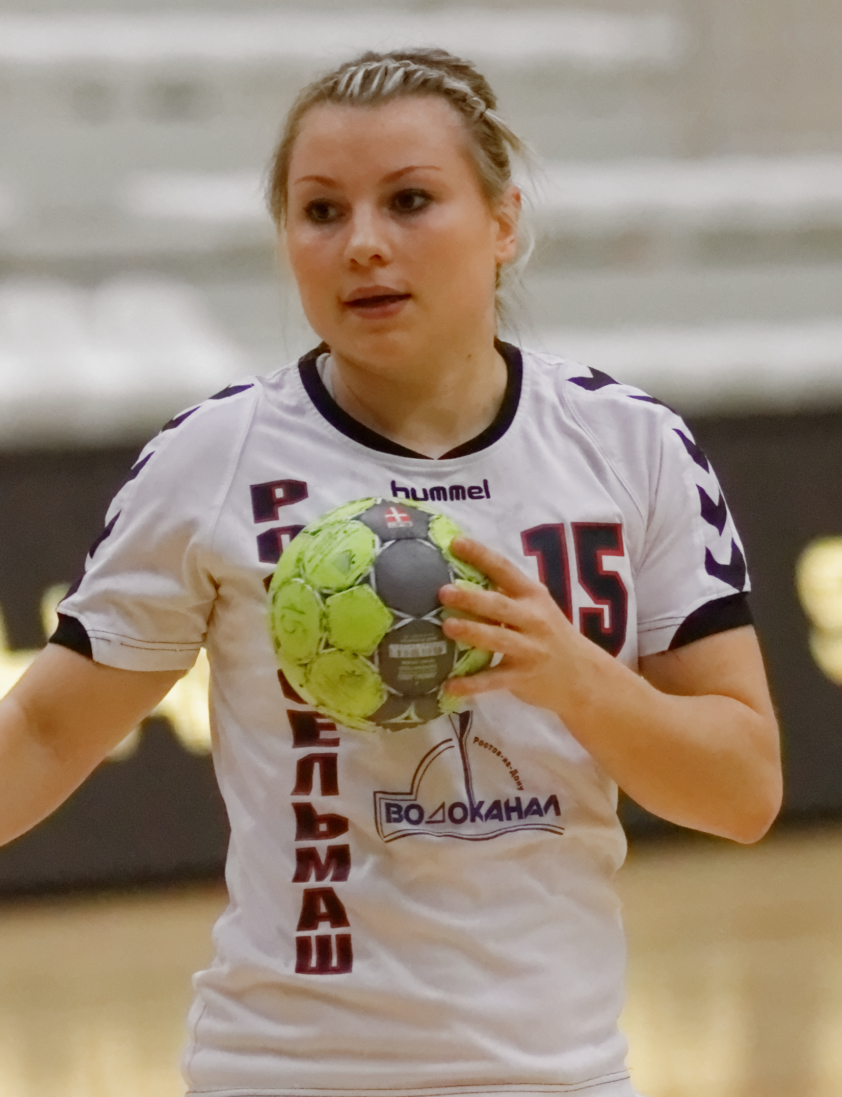 Semi-final EHF Cup Winners' Cup. Issy Paris Hand - Rostov-Don, 5 April 2013. Marina Yartseva.